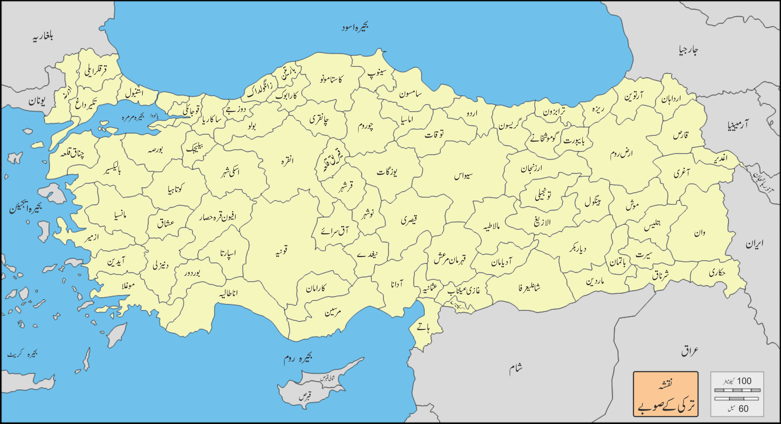 Provinces of Turkey Urdu